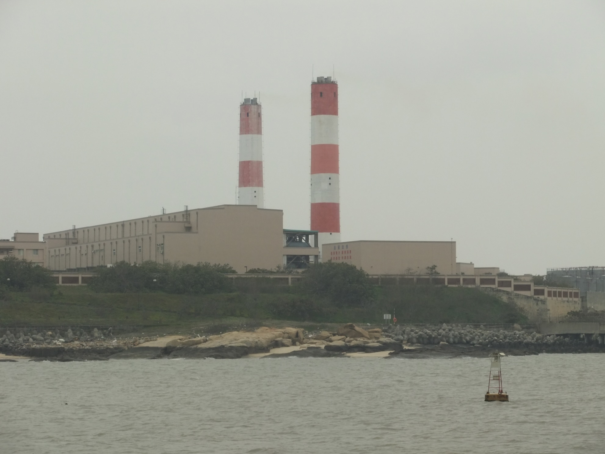 Shuitou Wharf is located near the southwestern extremity of Kinmen Island, R.O.C. It is Kinmen's only wharf for ferries connecting it with the Mainland China (Dongdu and Wutong Terminals in Xiamen, and Shijing Terminal near Quanzhou